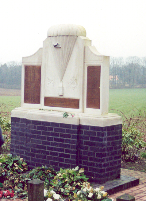 'Air Despatch Memorial' in Oosterbeek (Renkum). Unveiled in 1994 by sir John Hackett. Supposed to be made by Tony Wheeler.